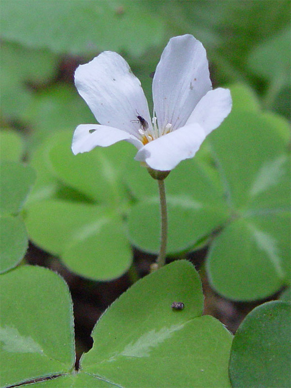 Description Oxalis oregana — Redwood Sorrel. Location Pescadero Creek County Park — in Midpeninsula Regional Open Space District, San Mateo County, California. Date April 10, 2004. Photographer Franco Folini